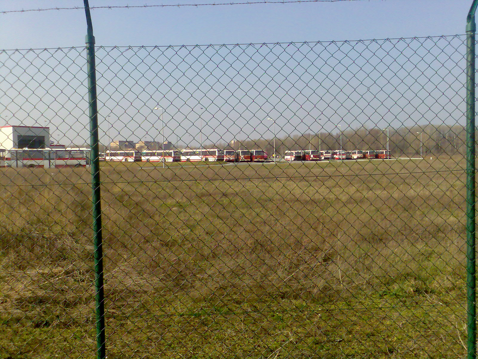 Ikarus 280 buses and others